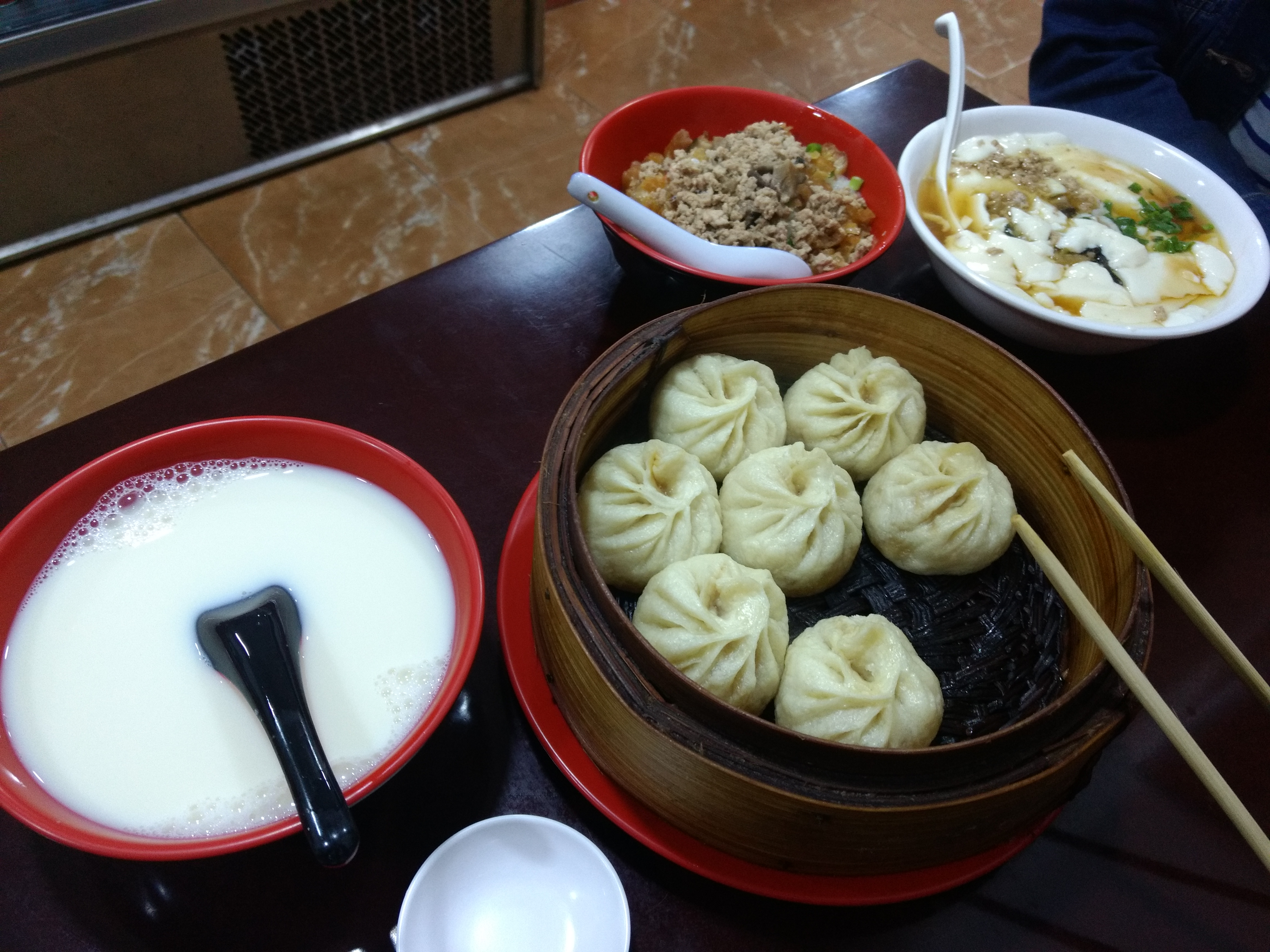 Chinese breakfast. Soja milk, baozi, Congee and Tofu stewed.